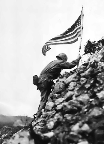 US Flag raised over the Shuri Castle on Okinawa. Braving Japanese sniper fire, US Marine Lieutenant Colonel R.P. Ross, Jr. places on American flag on a parapet of Shuri castle on May 29, 1945. The castle is a former enemy stronghold in southern Okinawa in the Ryukyu (Loochoo chain), situated 375 miles from Japan.